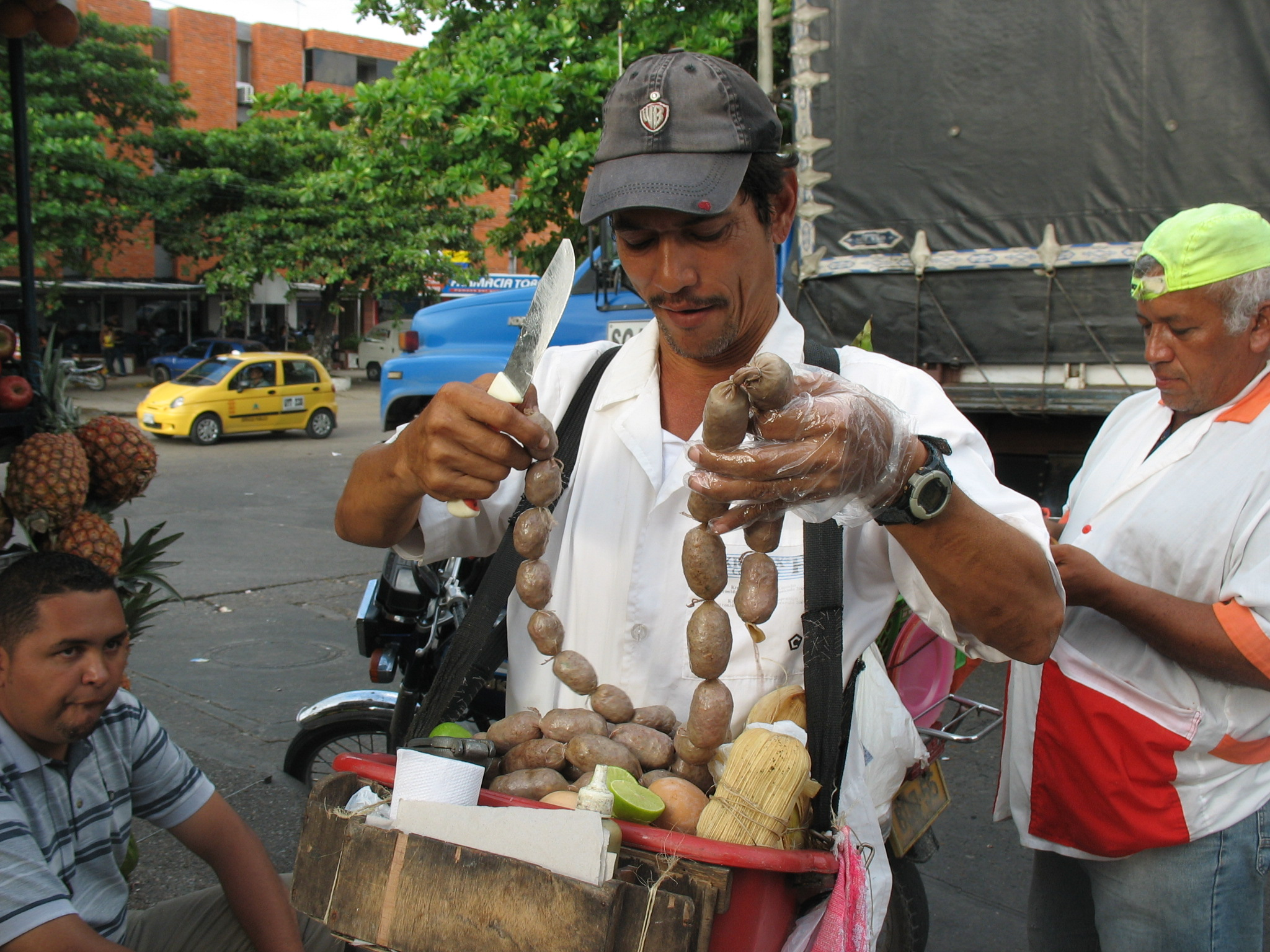 Butifarrero.